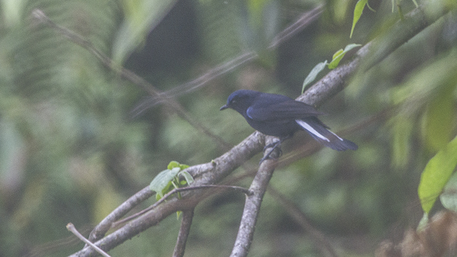 The species White-tailed Robin had been photographed from Neora Valley National Park in Darjeeling district of the West Bengal state in India on 29.04.2016.